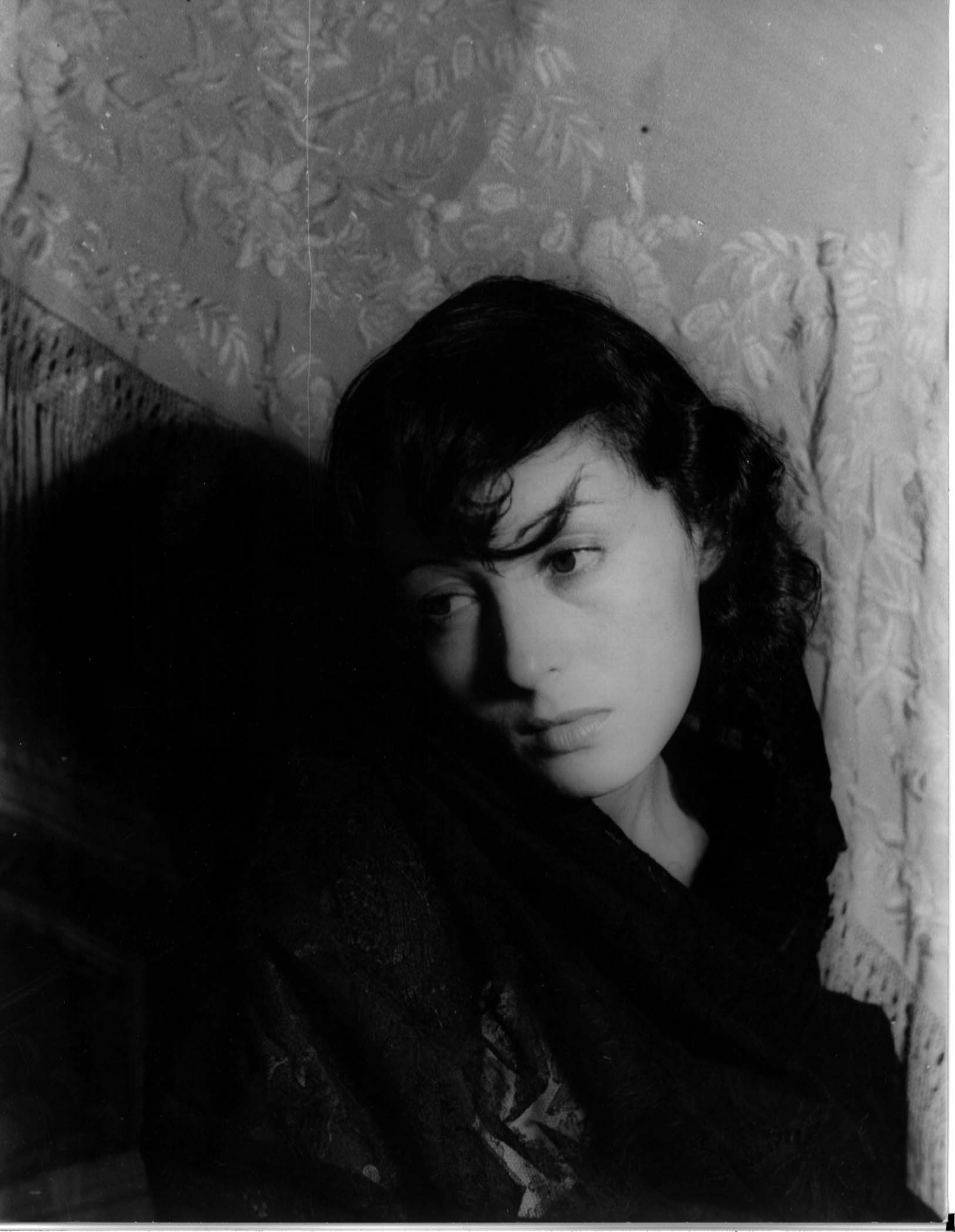 Portrait of Luise Rainer depicted person: Luise Rainer (age: 27) Portrait of Luise Rainer